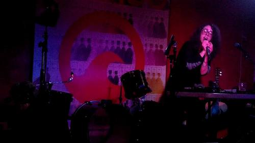 The Delay In The Universal Loop, stage name of Dylan Iuliano, performing live at Pianos in New York, U.S., 5 February 2014